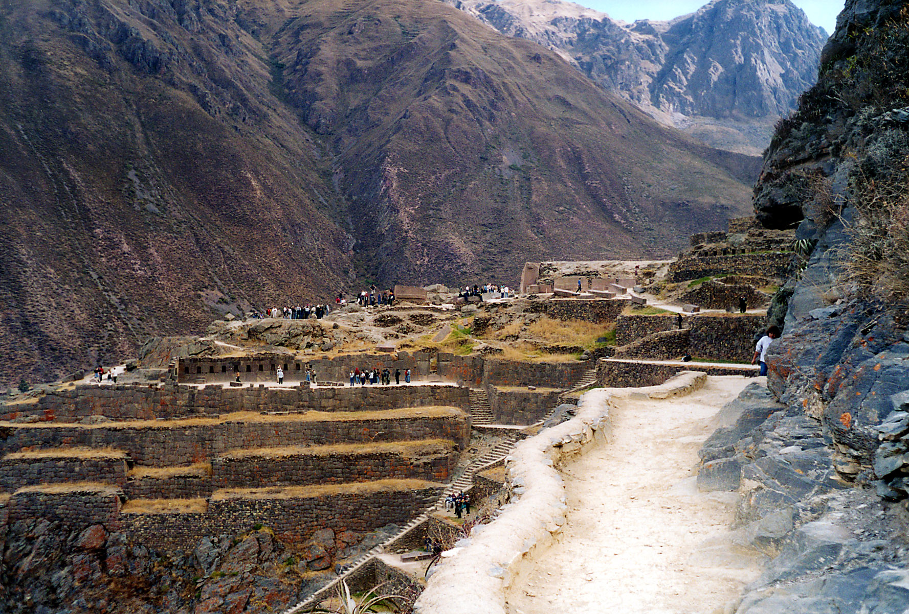 Ollantaytambo, Peru. The photo was taken in 2002 by Håkan Svensson (Xauxa).